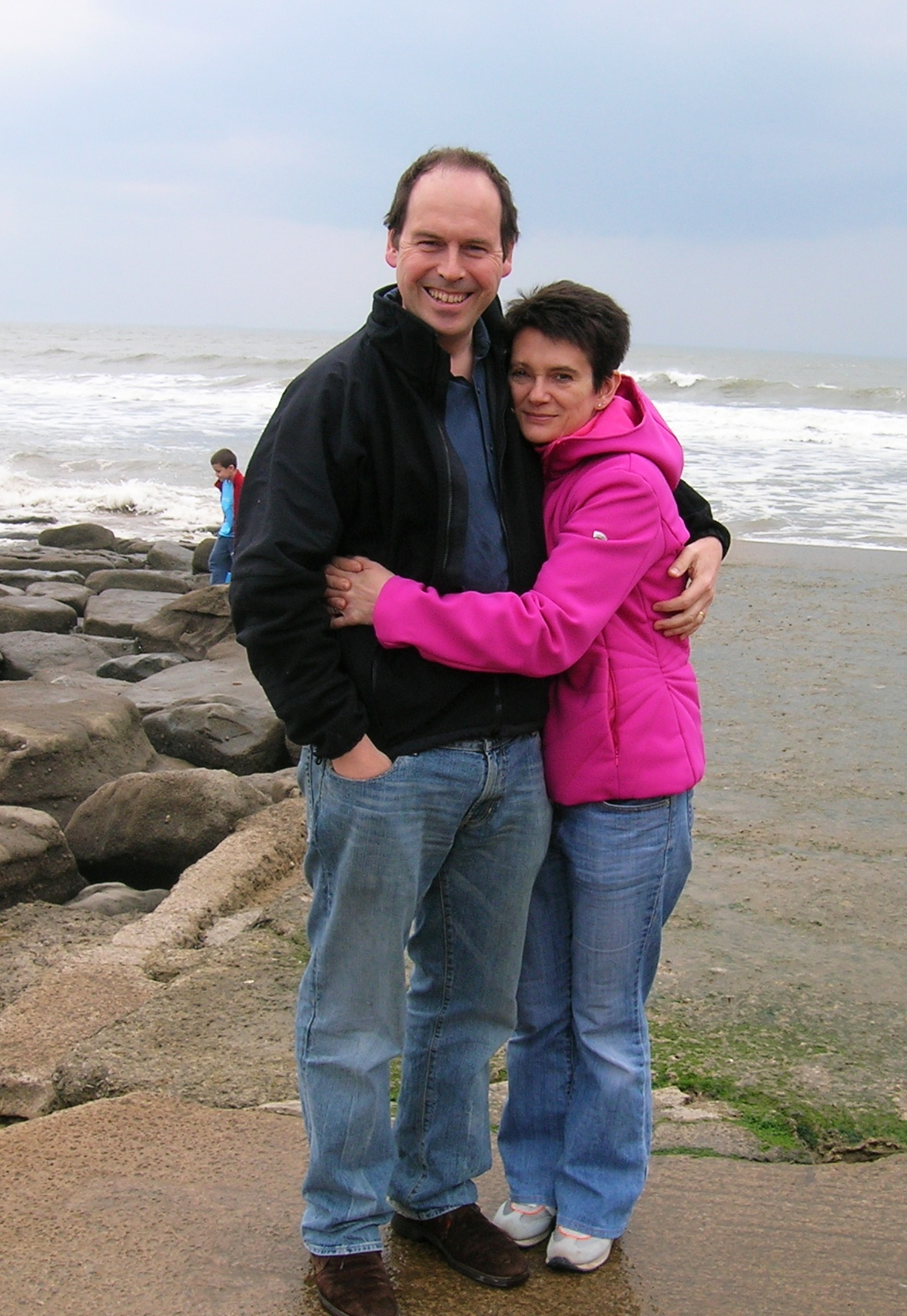 Rory Cellan-Jones and his wife Diane Coyle, Southerndown, South Wales.